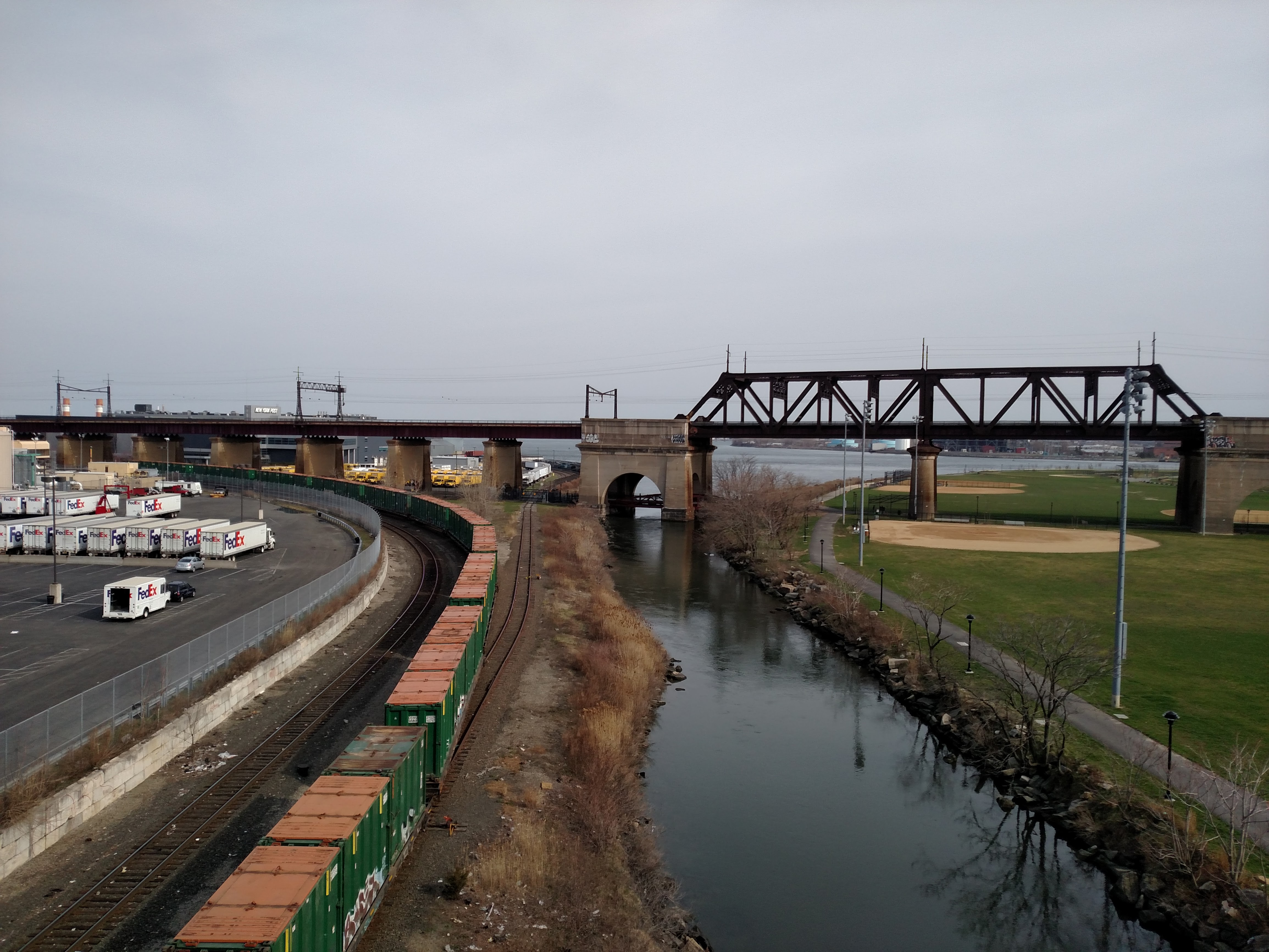 The Bronx Kill, looking to the east from the Triborough Bridge walkway. The new Randalls Island Connector bridge is partly visible in the arch under the New York Connecting Railroad viaduct.